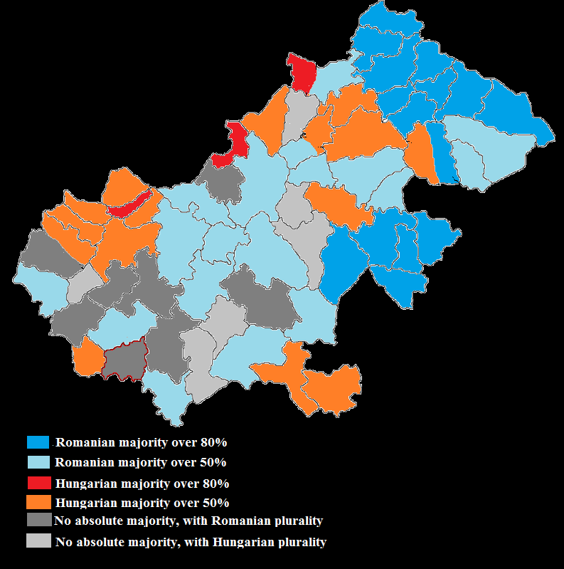 Ethnic map of Satu Mare County, based on the 2011 census.